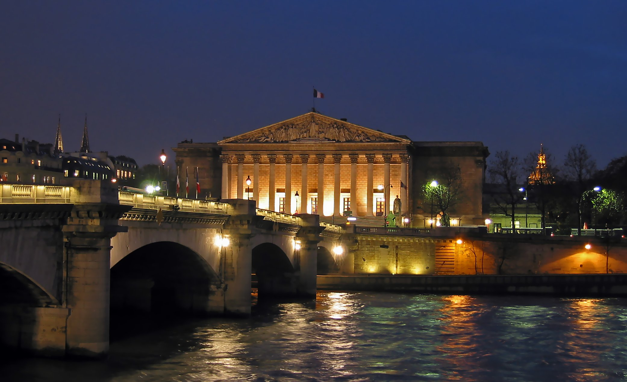 Palais Bourbon (seat of the National Assembly) in Paris at dusk. In the foreground is the river Seine crossed by the Pont de la Concorde. In the background on the right hand side the cupola of the Dôme des Invalides can be seen.